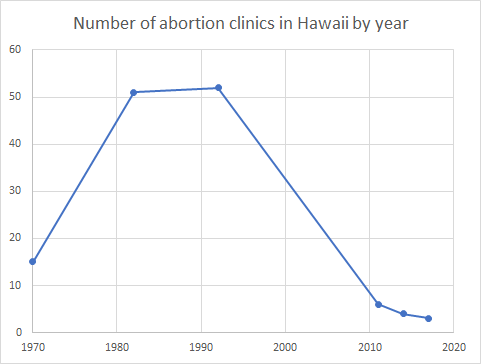 Number of abortion clinics in Hawaii by year. Created using data linked on .